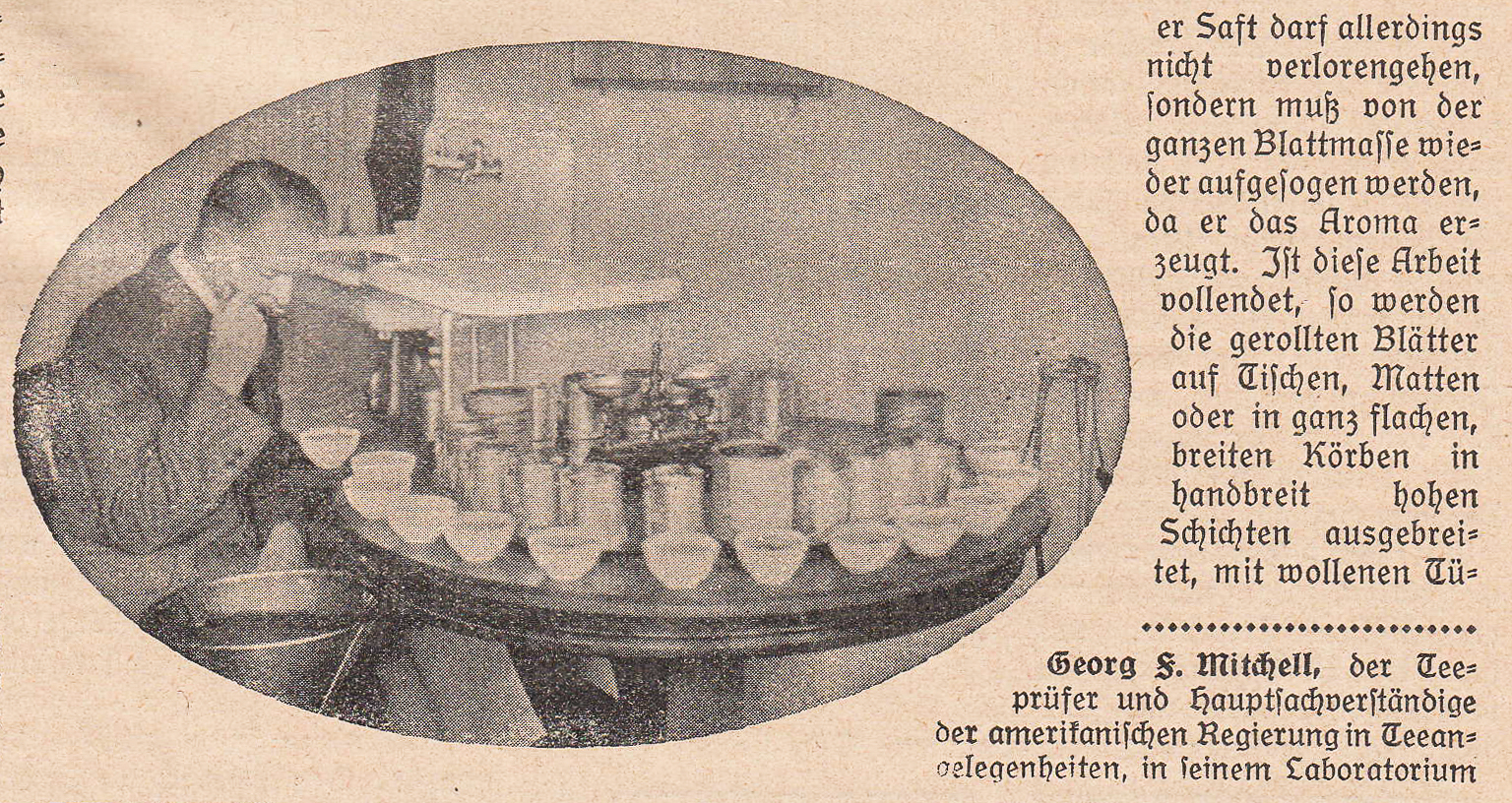 From the Catholic magazine StadtGottes 1927